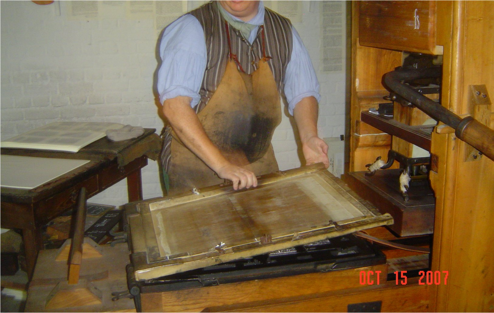 Colonial Williamsburg print shop 2007